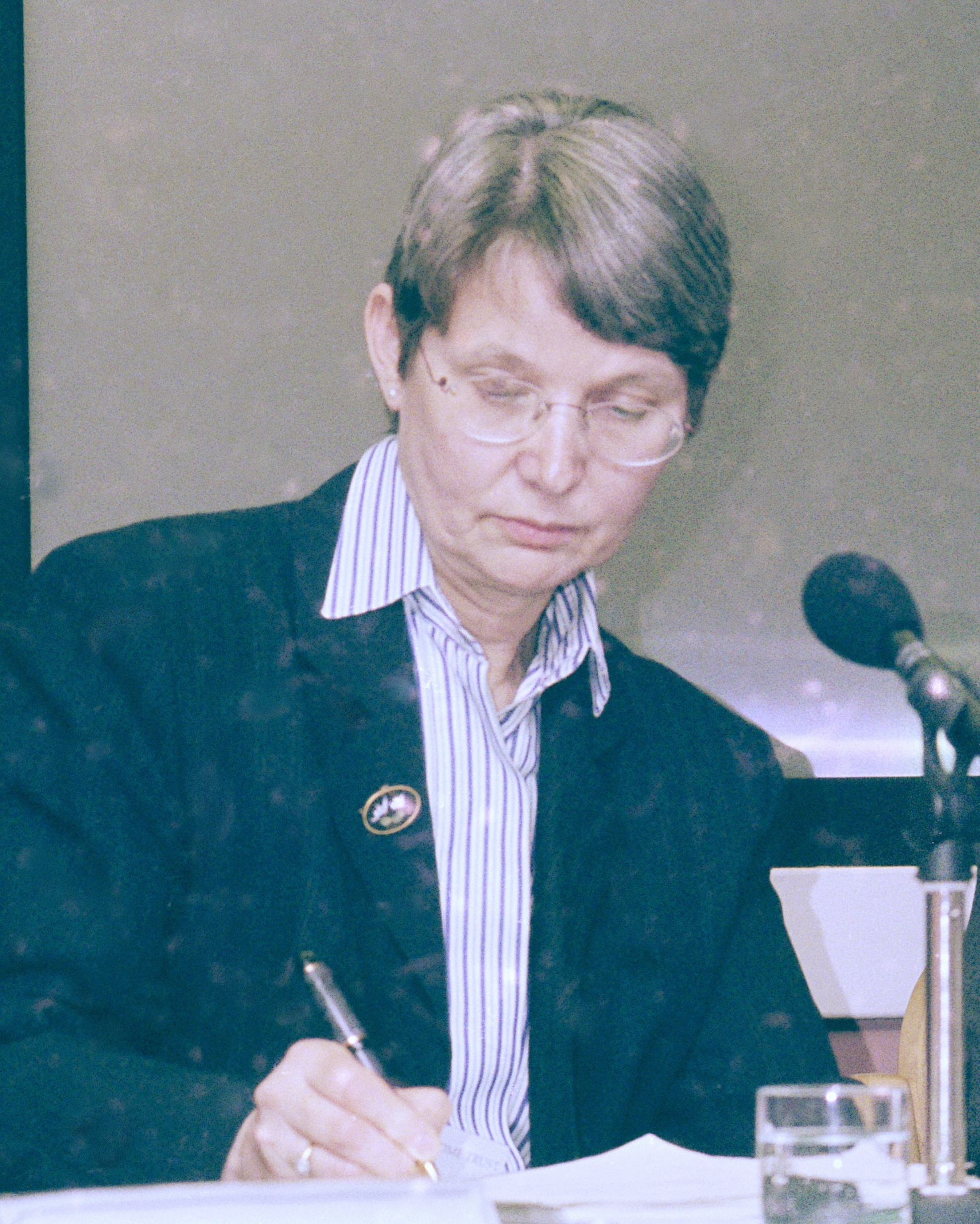 Taken at the Witness Seminar “Haemophilia: Recent History of Clinical Management” held by the History of Twentieth Century Medicine Group.